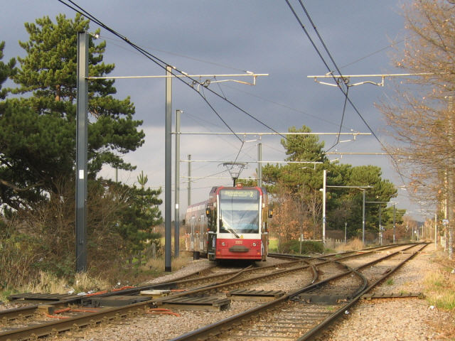 Junction of Croydon Tramlink lines next to the Arena tram stop. This tram is taking the Beckenham Junction branch, while straight on is the former B.R. track leading to Elmers End (interchange for the National Rail line to Hayes). For more information see the Wikipedia articles Arena tram stop.